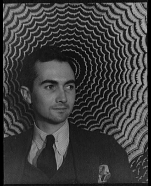 Title: Portrait of Prentiss Taylor Abstract/medium: 1 photographic print : gelatin silver.